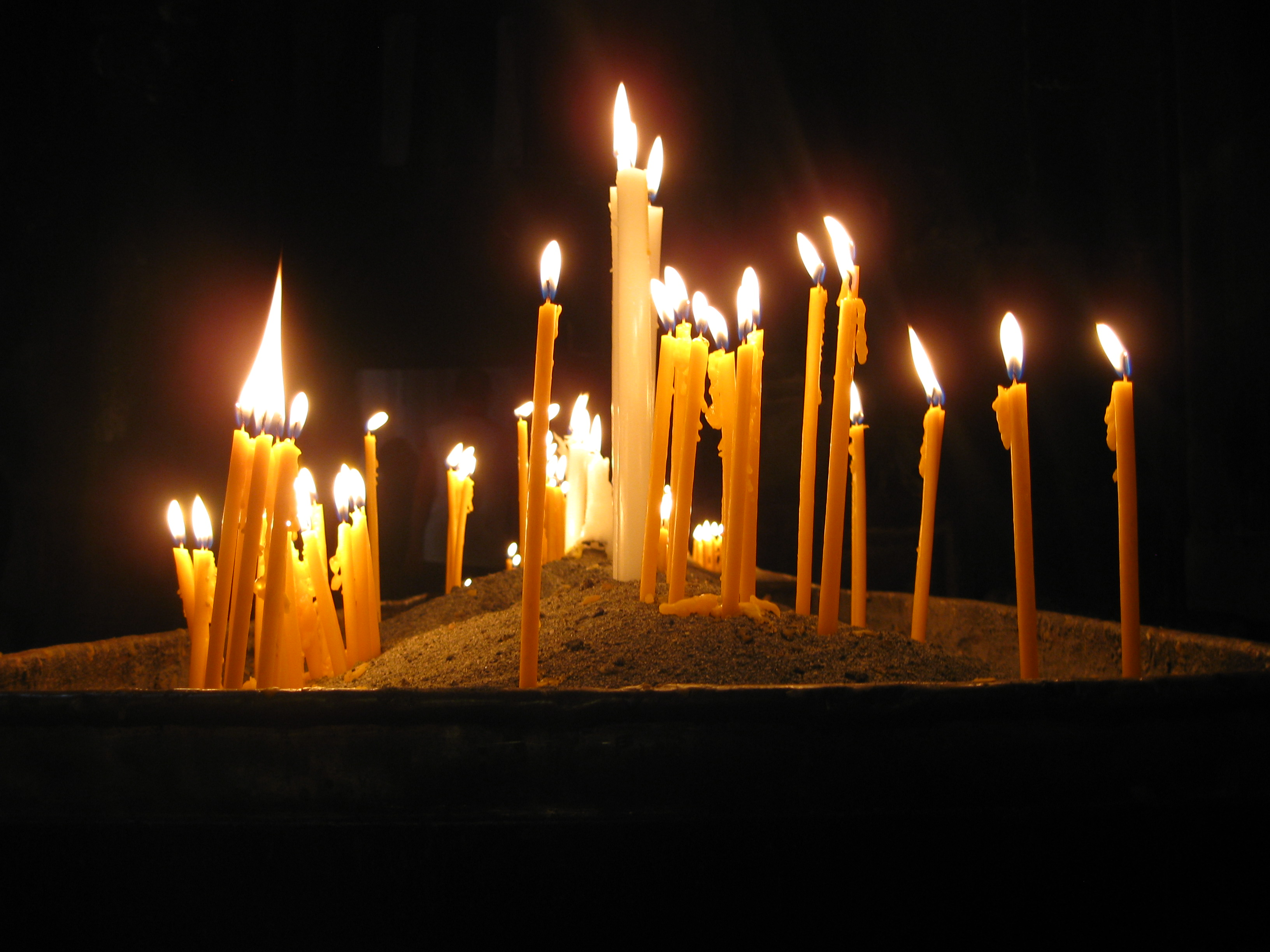 Geghard